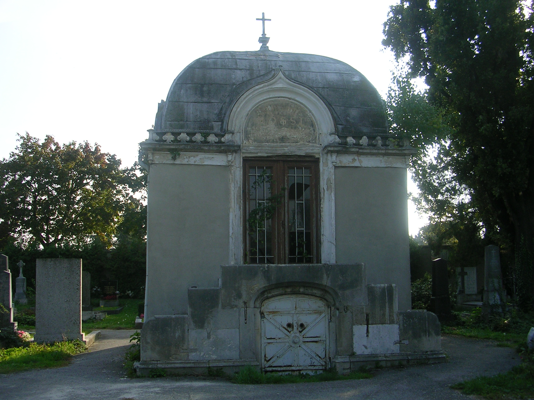 Gersthofer Friedhof, Mousoleums, relativ desolat und baufällig